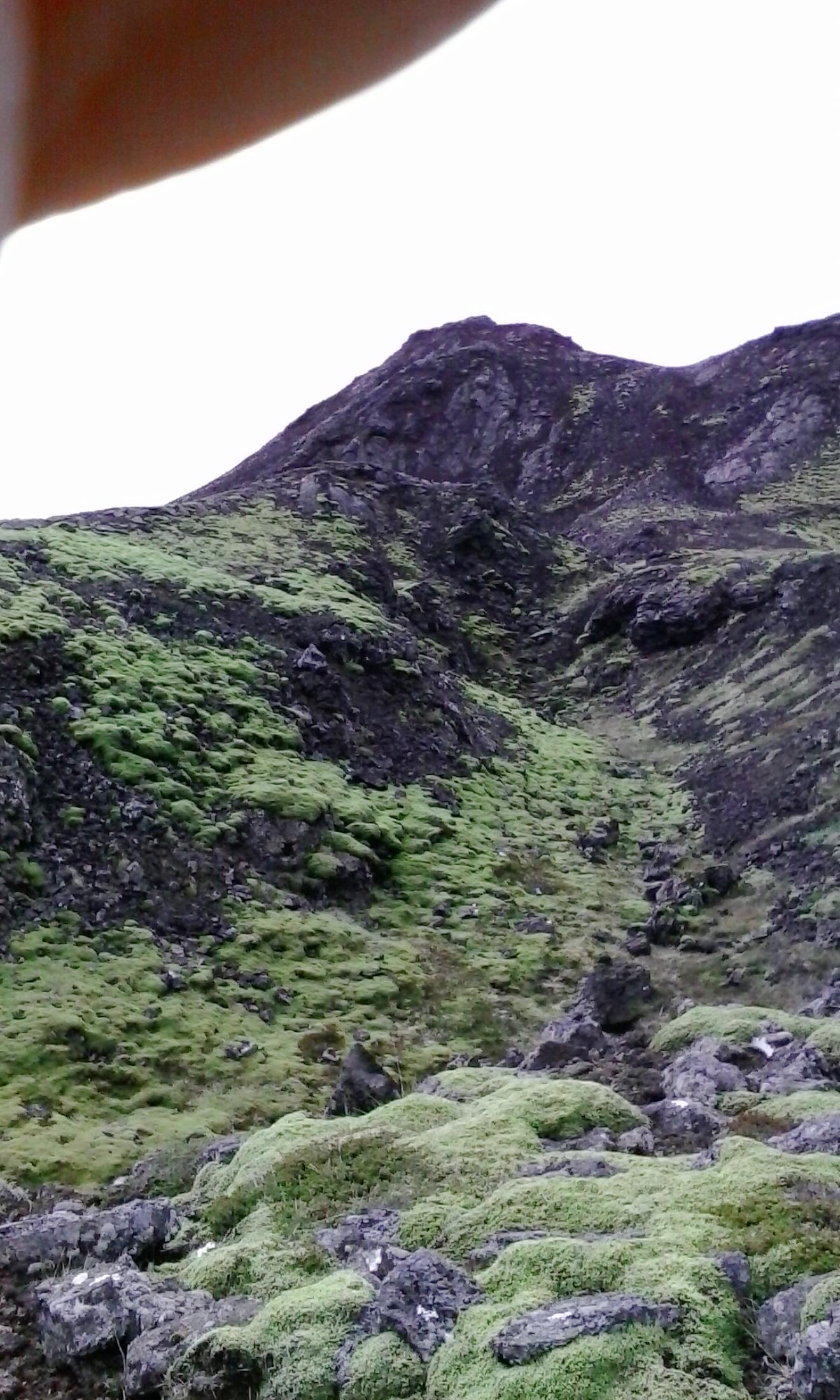 Lava channels around Eldborg, Krýsuvík, Iceland